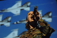 A member of the United States Air Force Band of Liberty